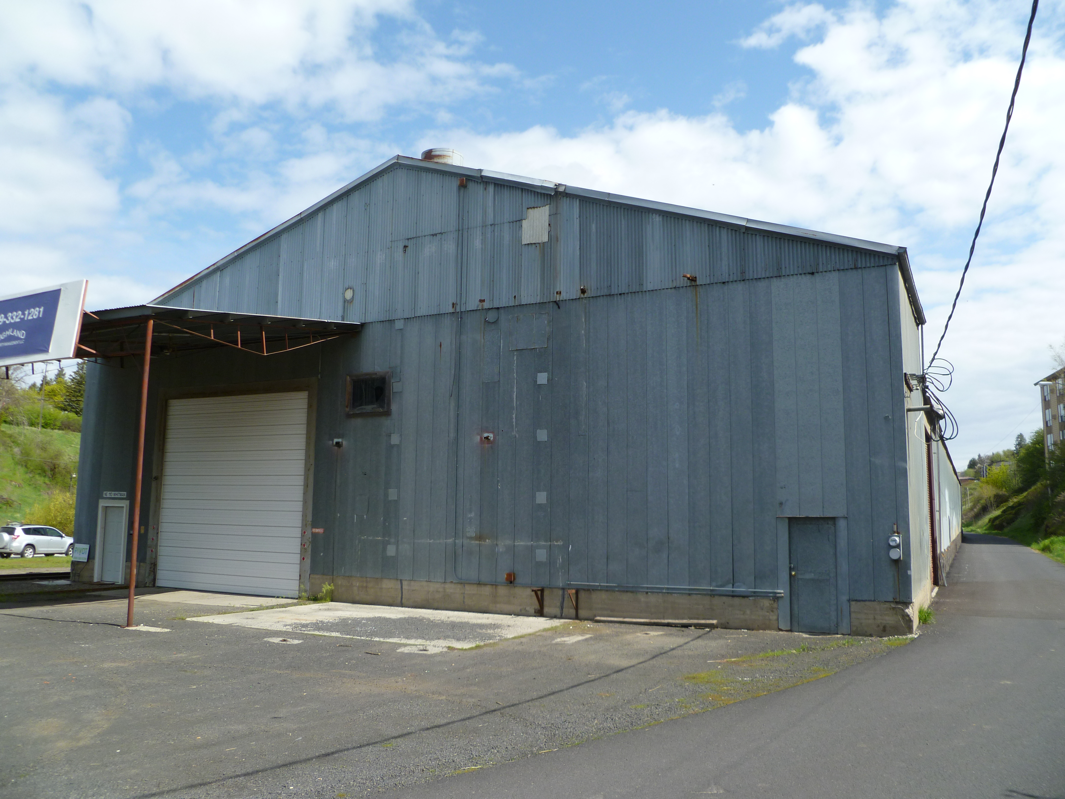 A dry pea warehouse used to process peas from the Palouse region